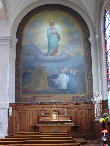 St. Francis Xavier church at Paris, chapel where, from June 2009, the urn with the incorrupt body of St. Madaleine Sophie Barat is venerated.